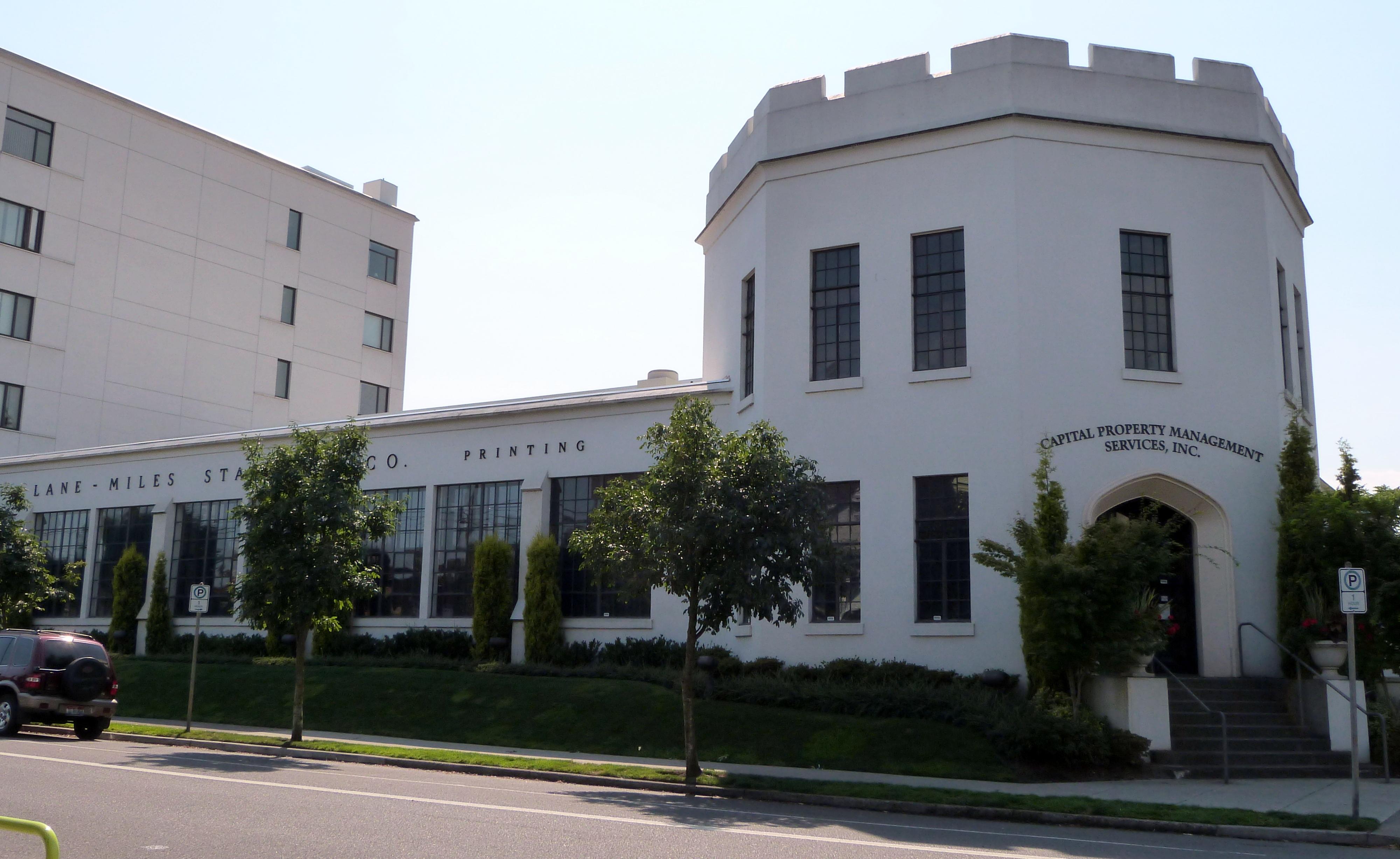 The historic Lane - Miles Standish Company Printing Plant (built 1929), located at 1539 Northwest 19th Avenue in Portland, Oregon, United States, is listed on the US National Register of Historic Places.